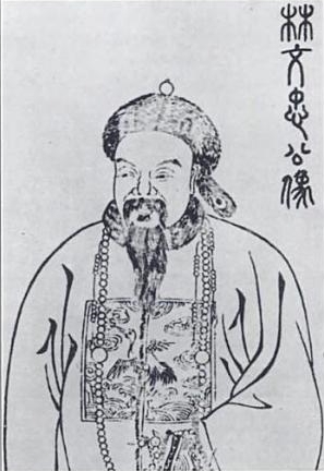 Commissioner Lin Zexu.